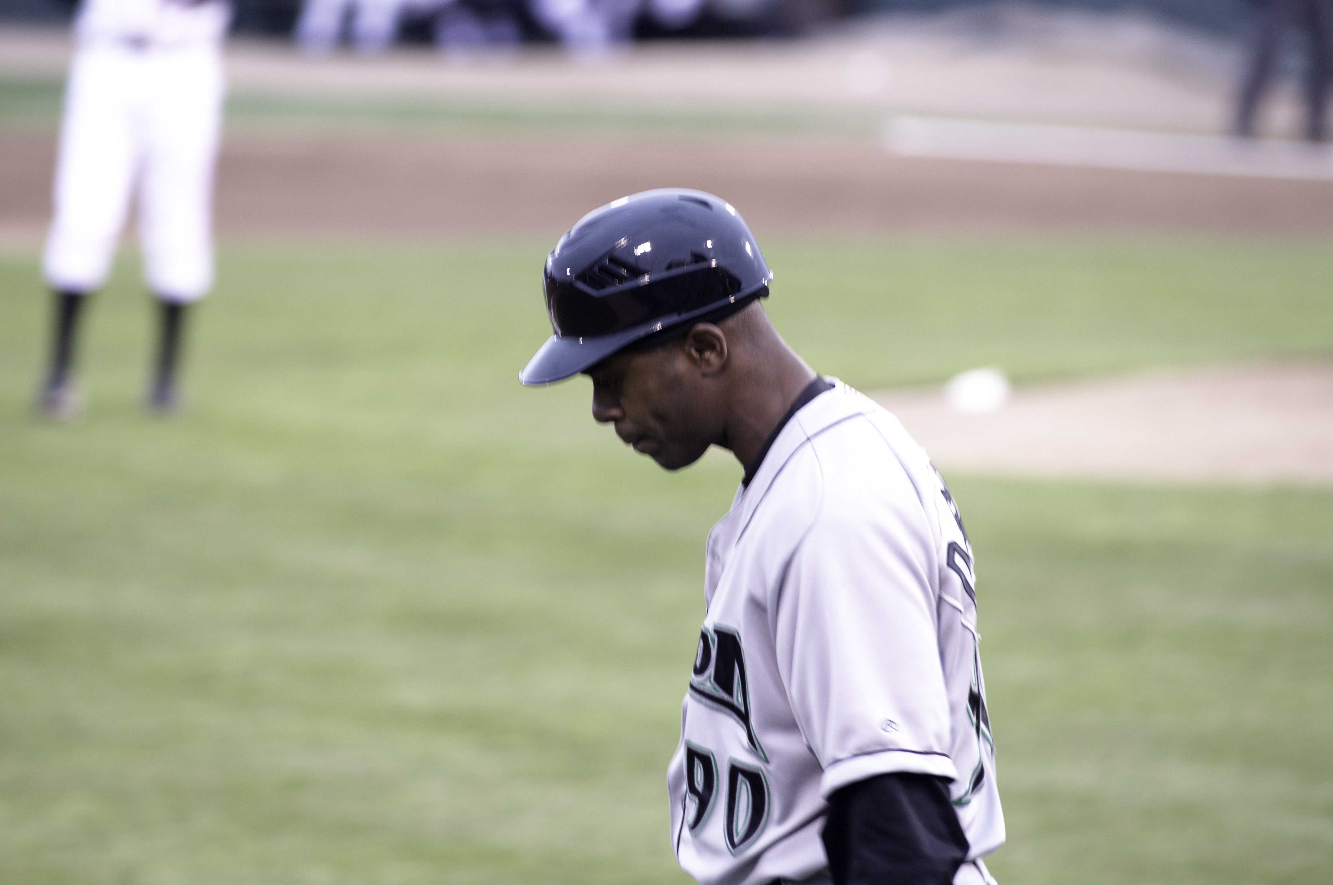 Dayton Dragons manager and former Major League Baseball player Delino DeShields seen on 15 April 2011 at Cooley Law School Stadium in Lansing, Michigan, USA, during a Midwest League game against the Lansing Lugnuts.